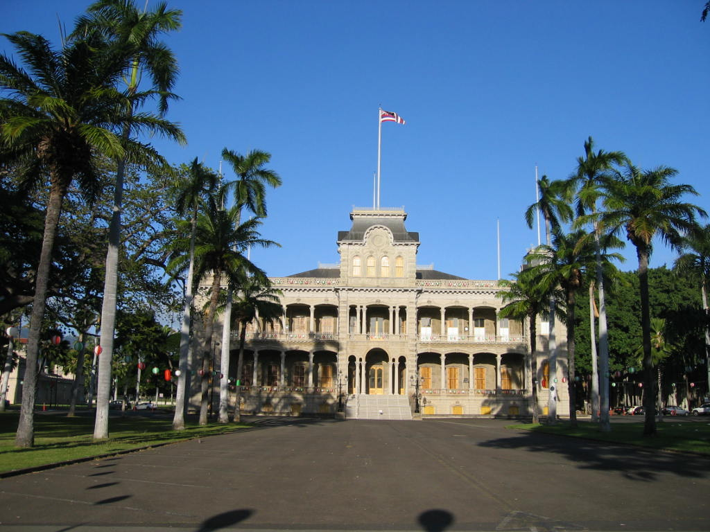 Taken by User:Jiang on December 23, 2005.